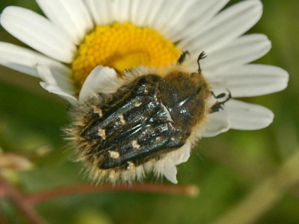 Tropinota squalida